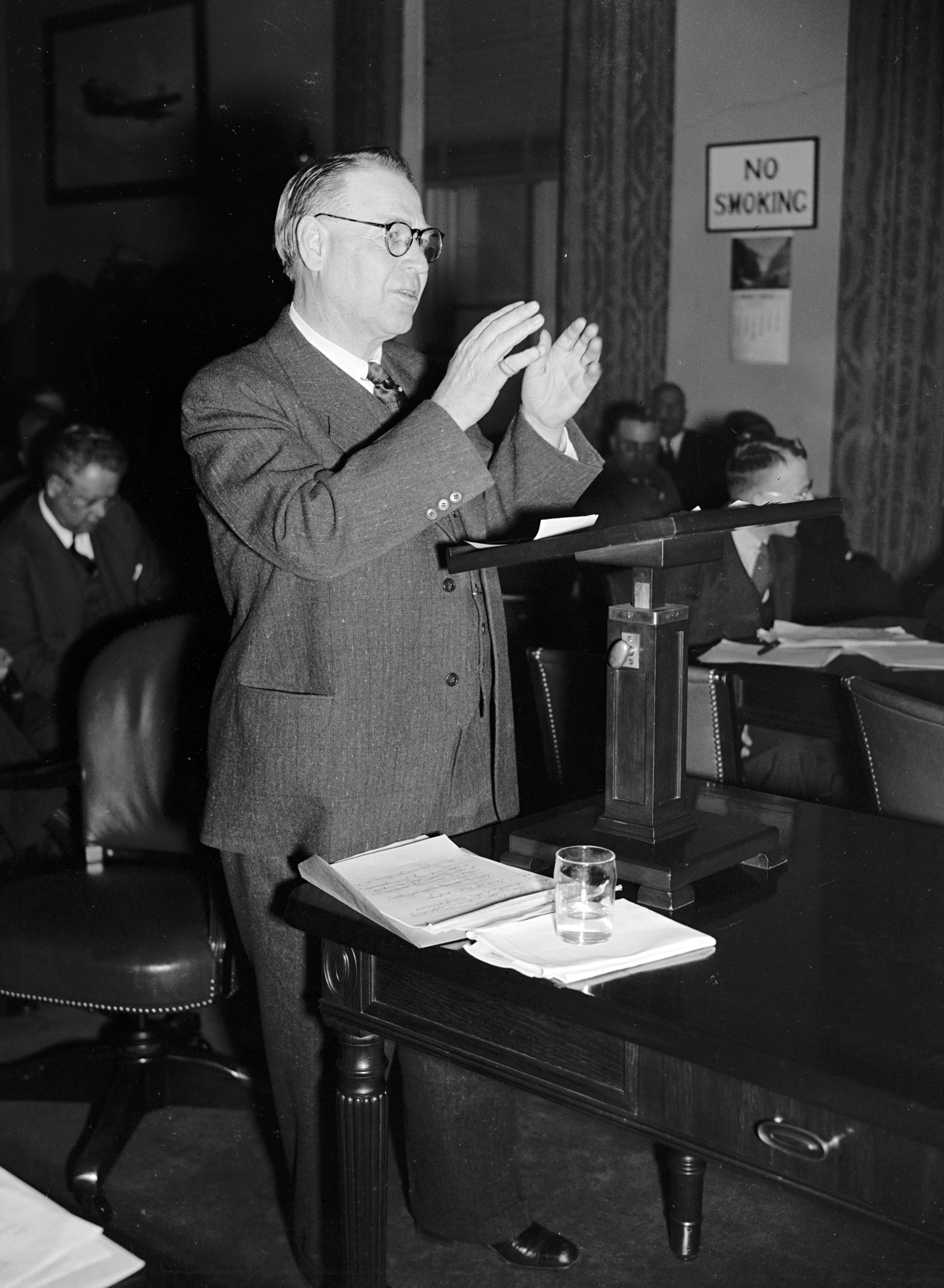 Roy E. Ayers, Governor of Montana